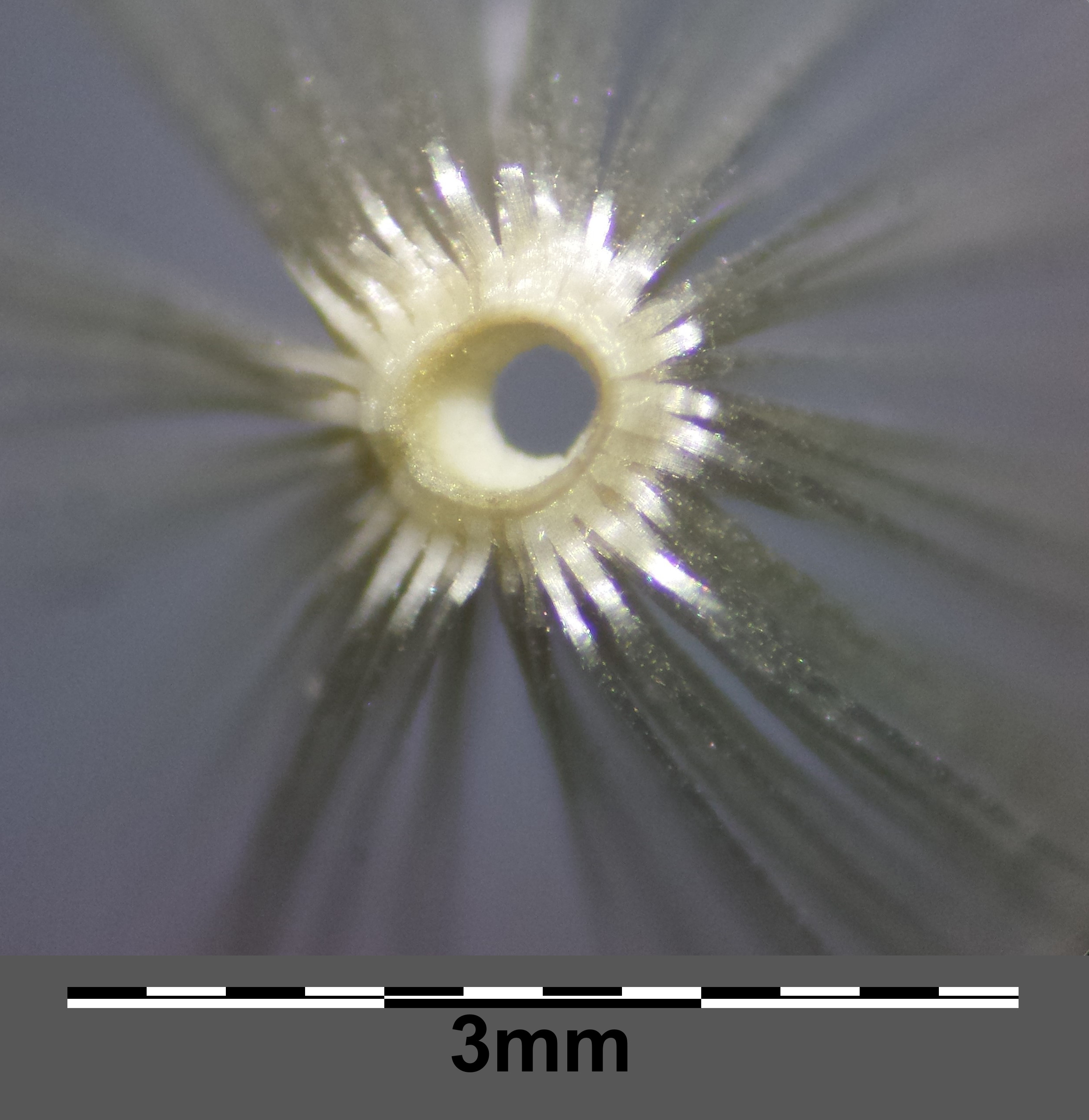 Bottom side of pappus, setae are united at base into a ring Taxonym: Carduus acanthoides ss Fischer et al. EfÖLS 2008 ISBN 978-3-85474-187-9 Location: Neue Donau, Vienna-Floridsdorf - ca. 160 m a.s.l. (leg.: 2015-07-06) Habitat: dry meadows